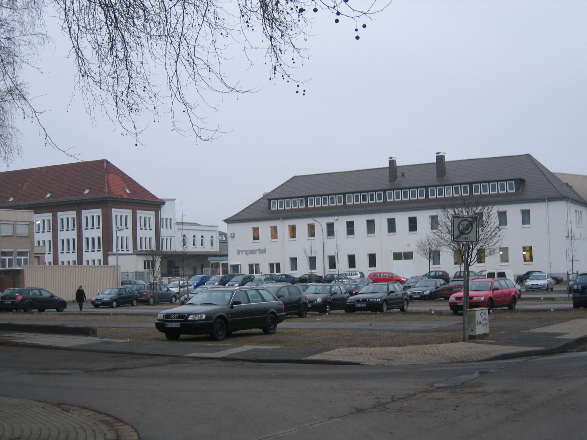 Miele factory in Bünde-Ennigloh, District of Herford, North Rhine-Westphalia, Germany.